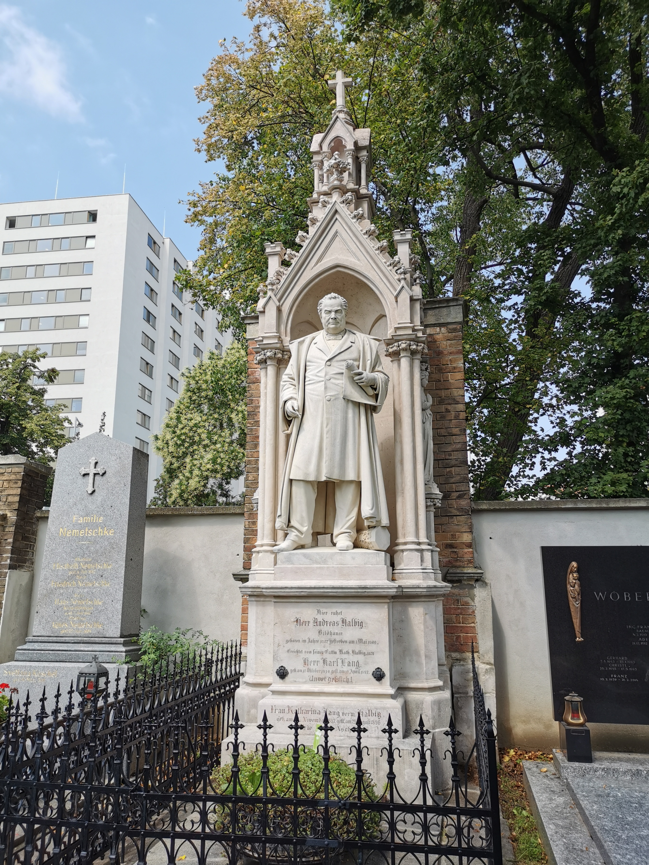 Cemetery of the Penzing parish, tomb of sculptor Andreas Halbig, designed by his brother Johann Halbig